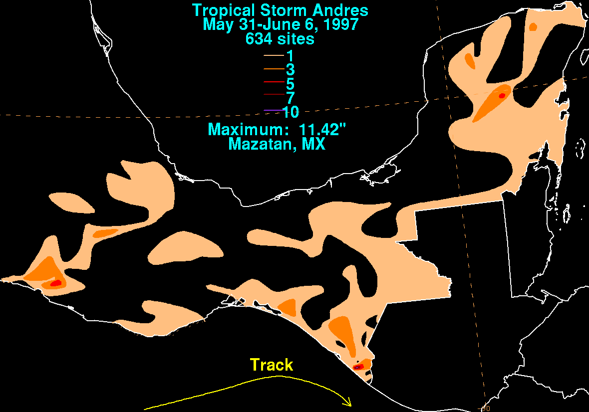 Storm total rainfall map of Tropical Storm Andres during May and June 1997.